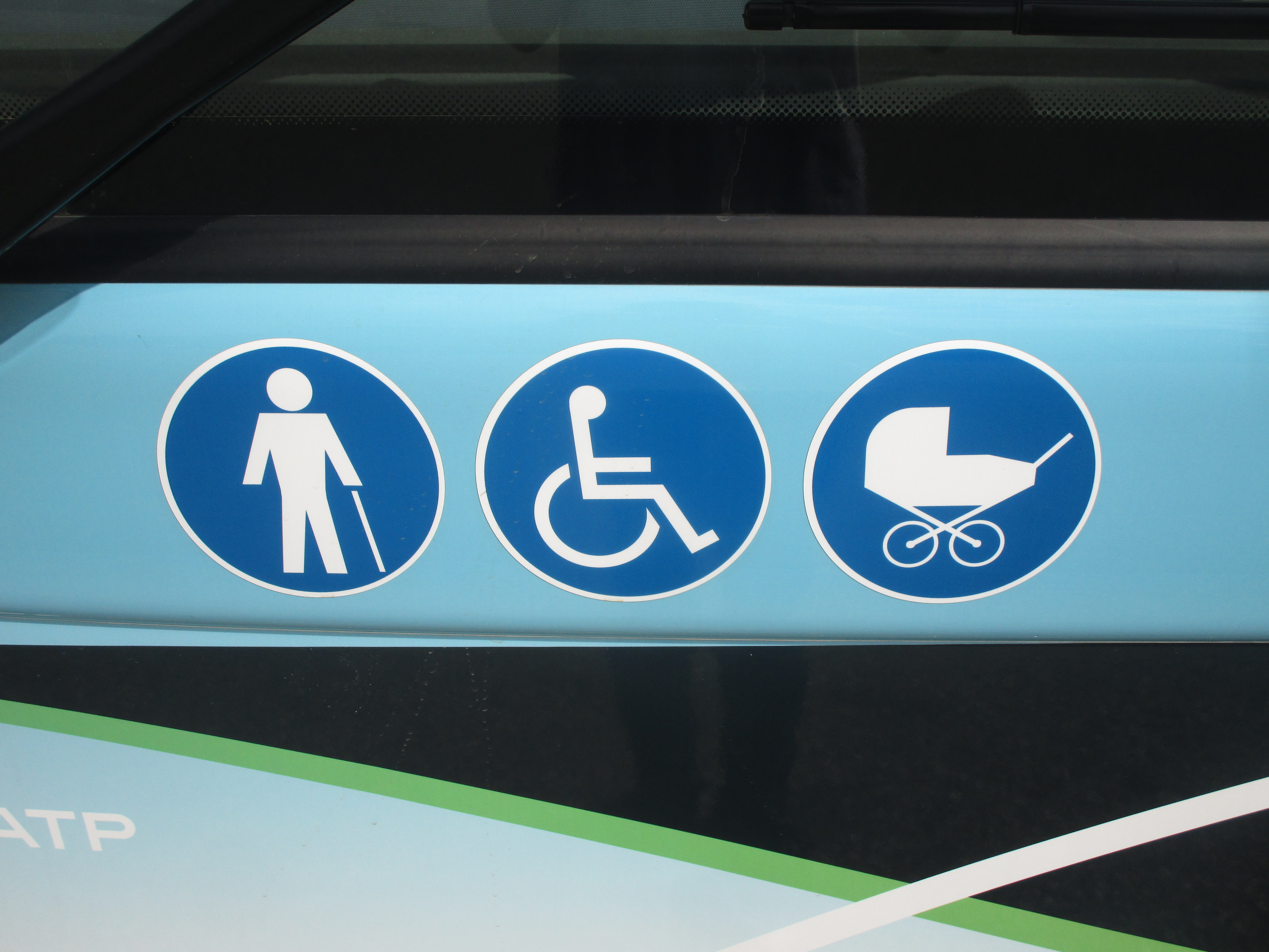 The accessibility symbols on the Iveco Crossway LE n°49 of Ondéa.